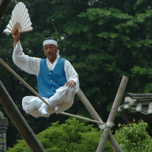 U.S. Forces Korea service members visit the Korean Folk Village as a part of the Republic of Korea-United States Friends Forever Program, hosted by the ROK Ministry of National Defense, June 9.